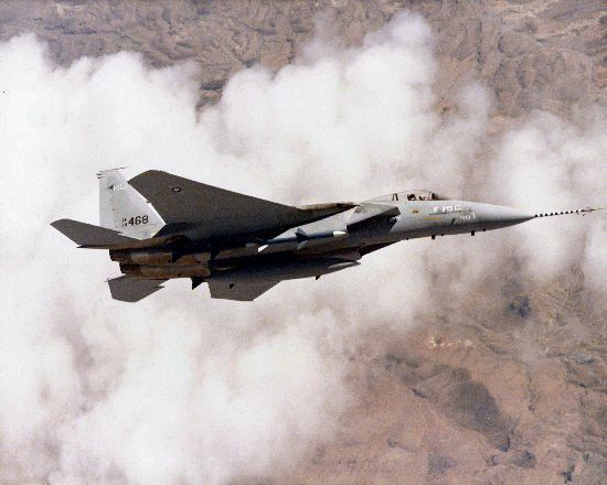 The first production McDonnell Douglas F-15C (S/N 78-468) in flight.